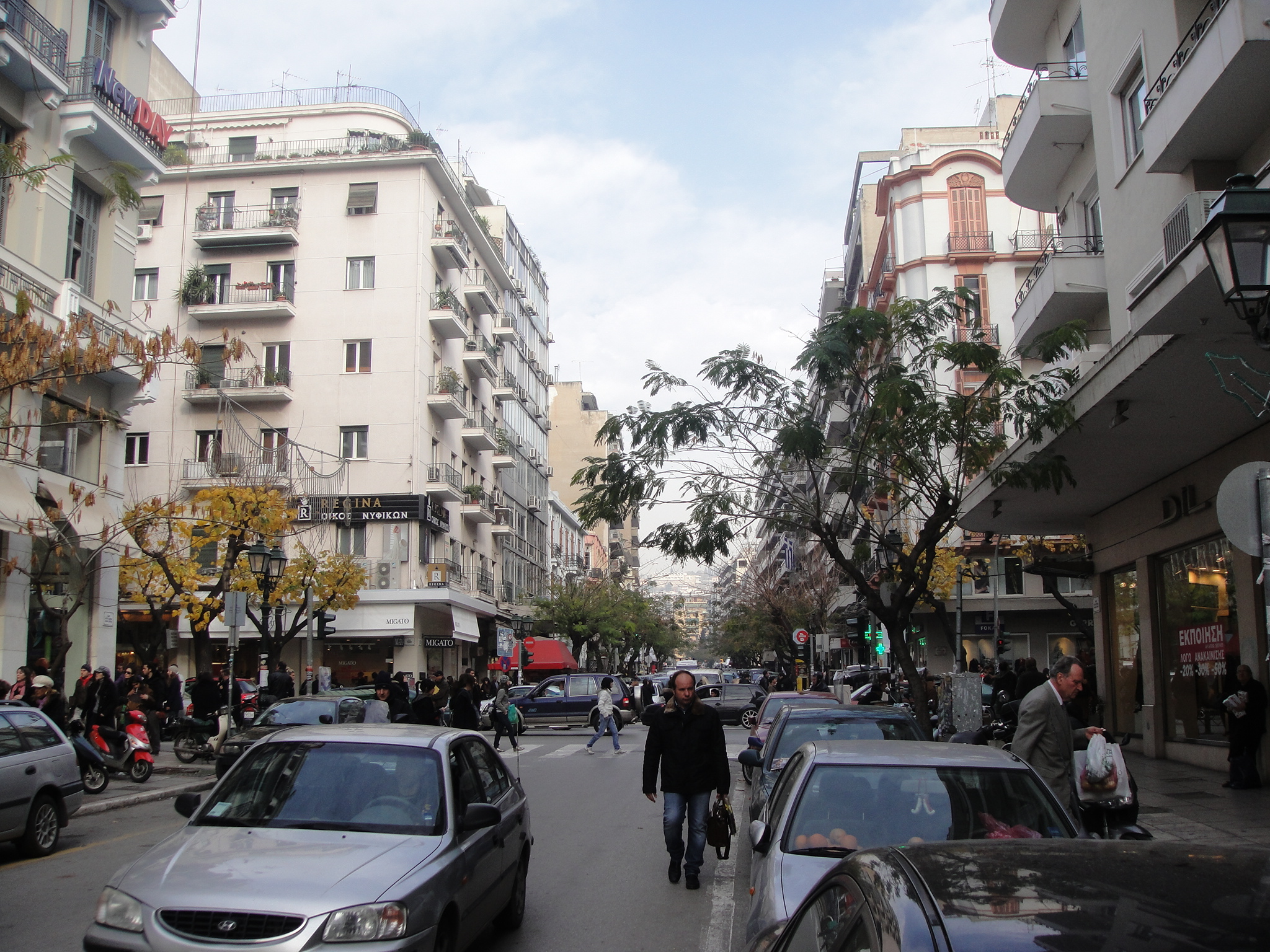 Street in Solun, Greece